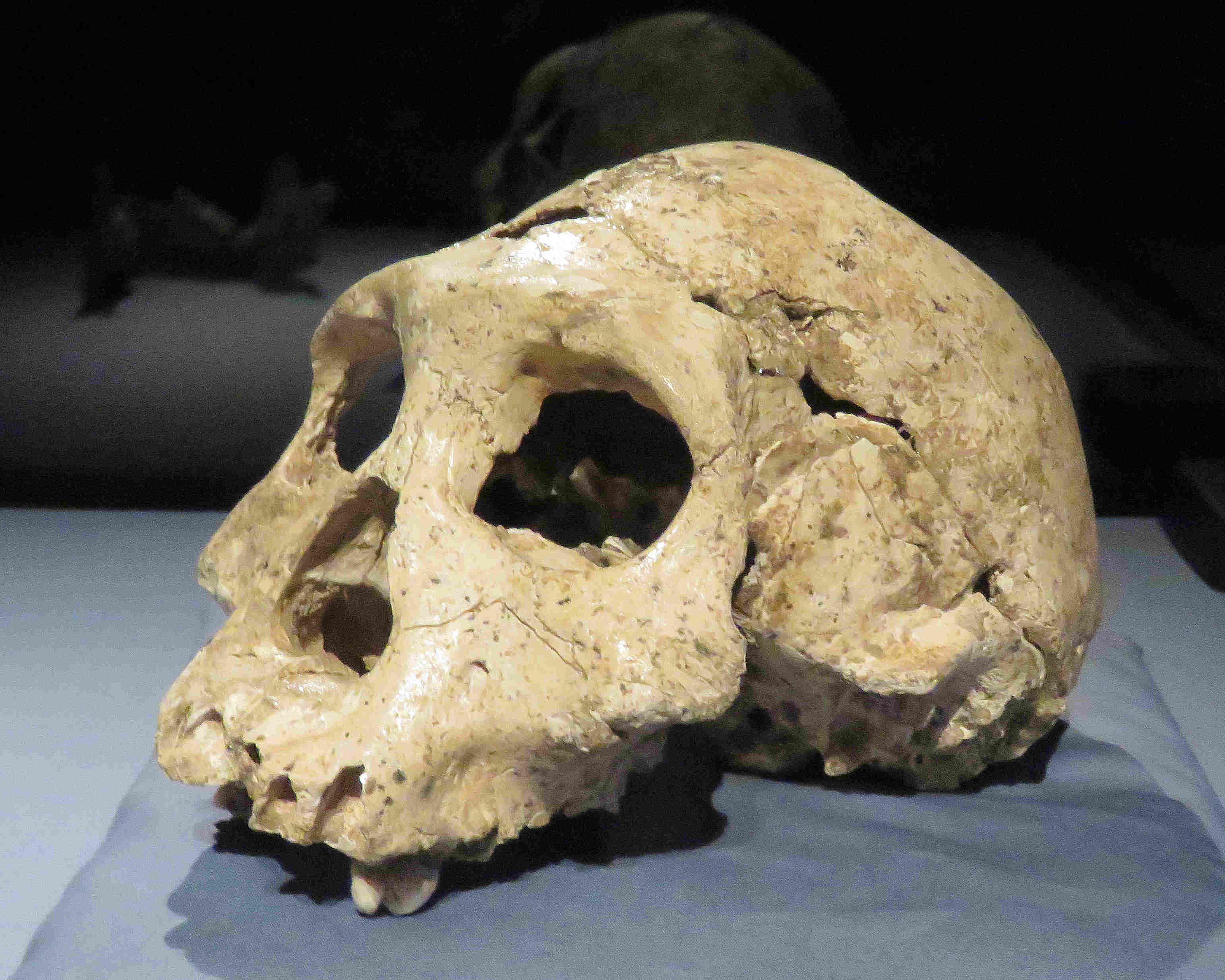 Cranium D2700 from Dmanisi, Georgia (original)